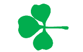 Leaf morphology trifoliolate (extraction of Leaf_morphology_no_title.png)